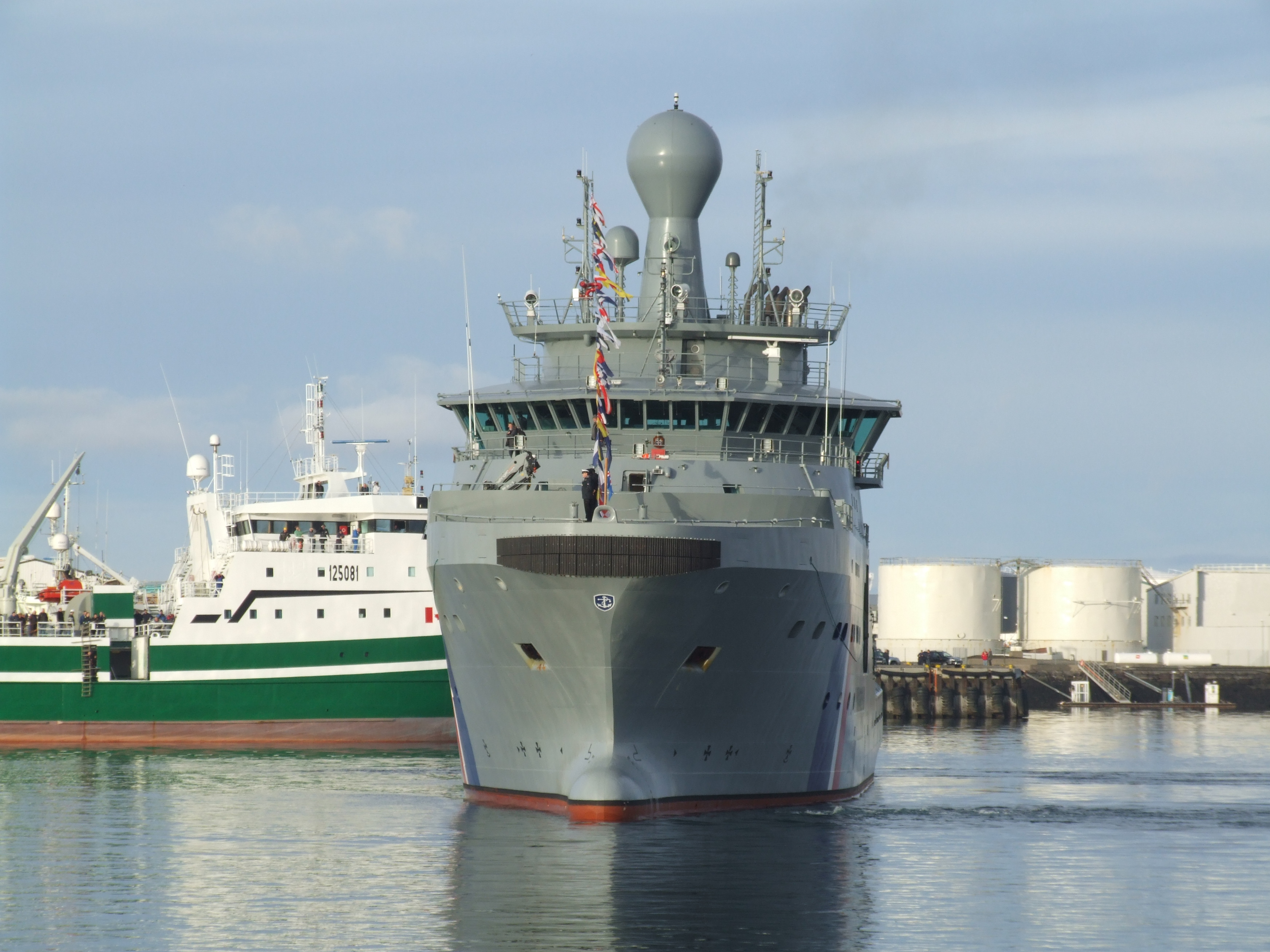 1 Arrival of Thor - Icelandic Coast Guard 2011-10-27 Reykjavik